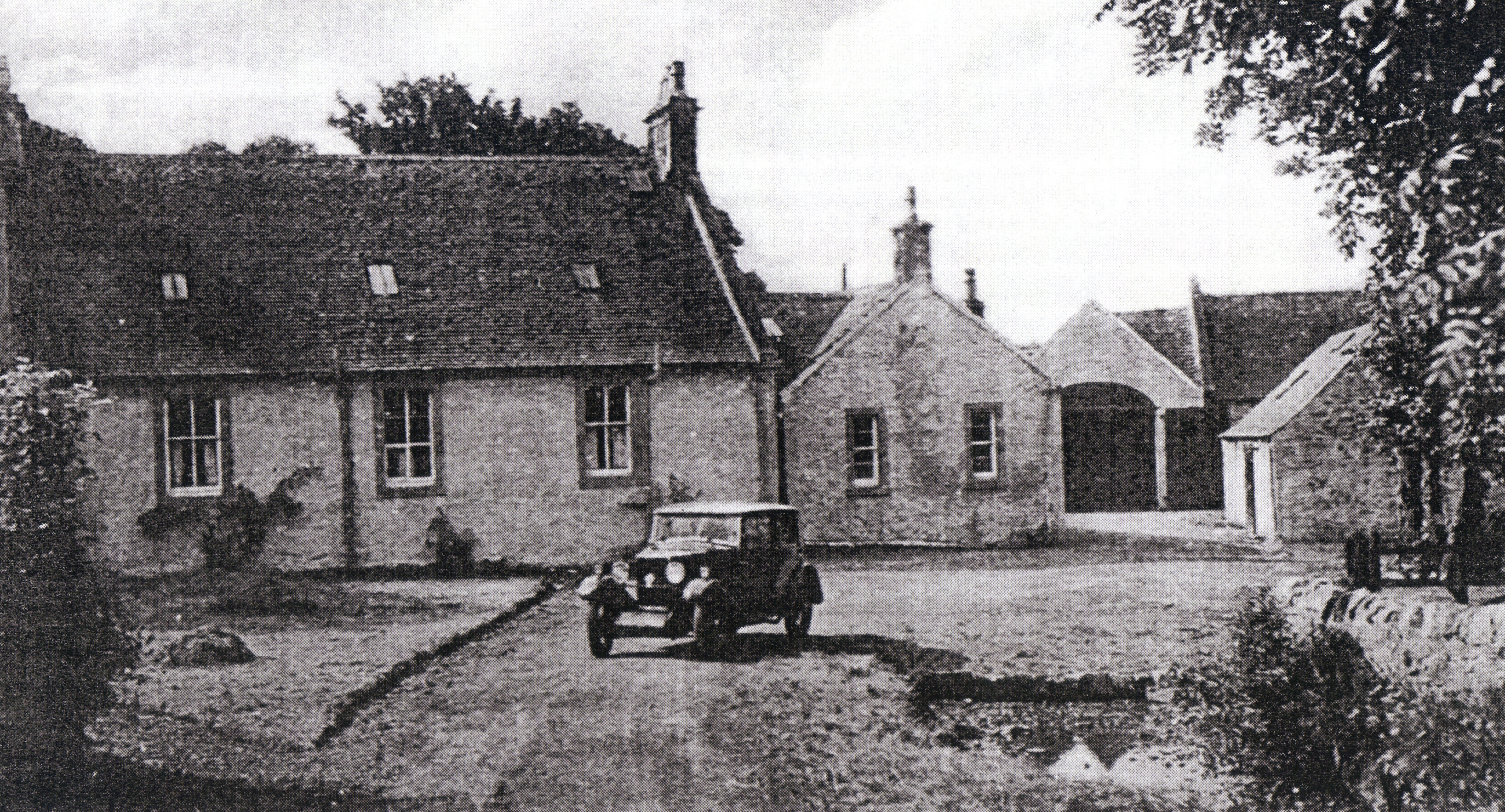 Bogston Farm, Barrmill, North Ayrshire, Scotland. Circa 1915